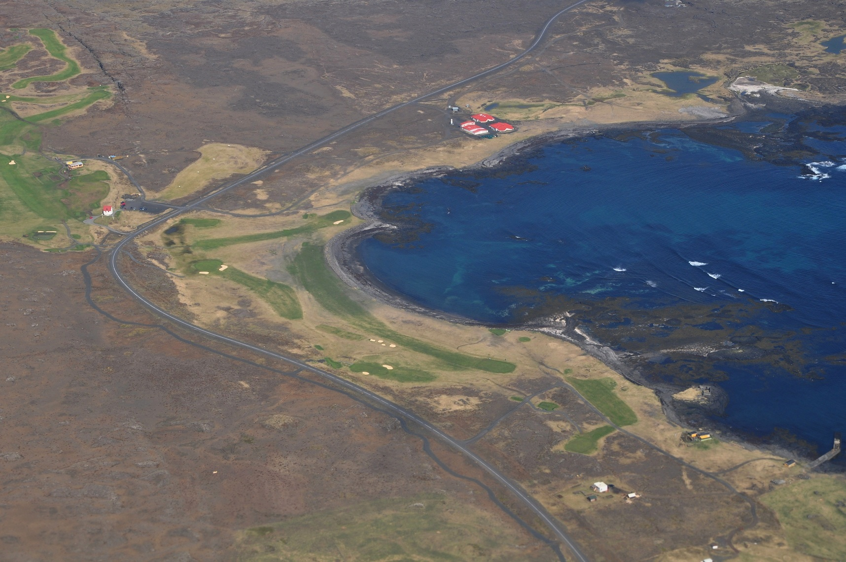 Iceland, Grindavík golf course from the air